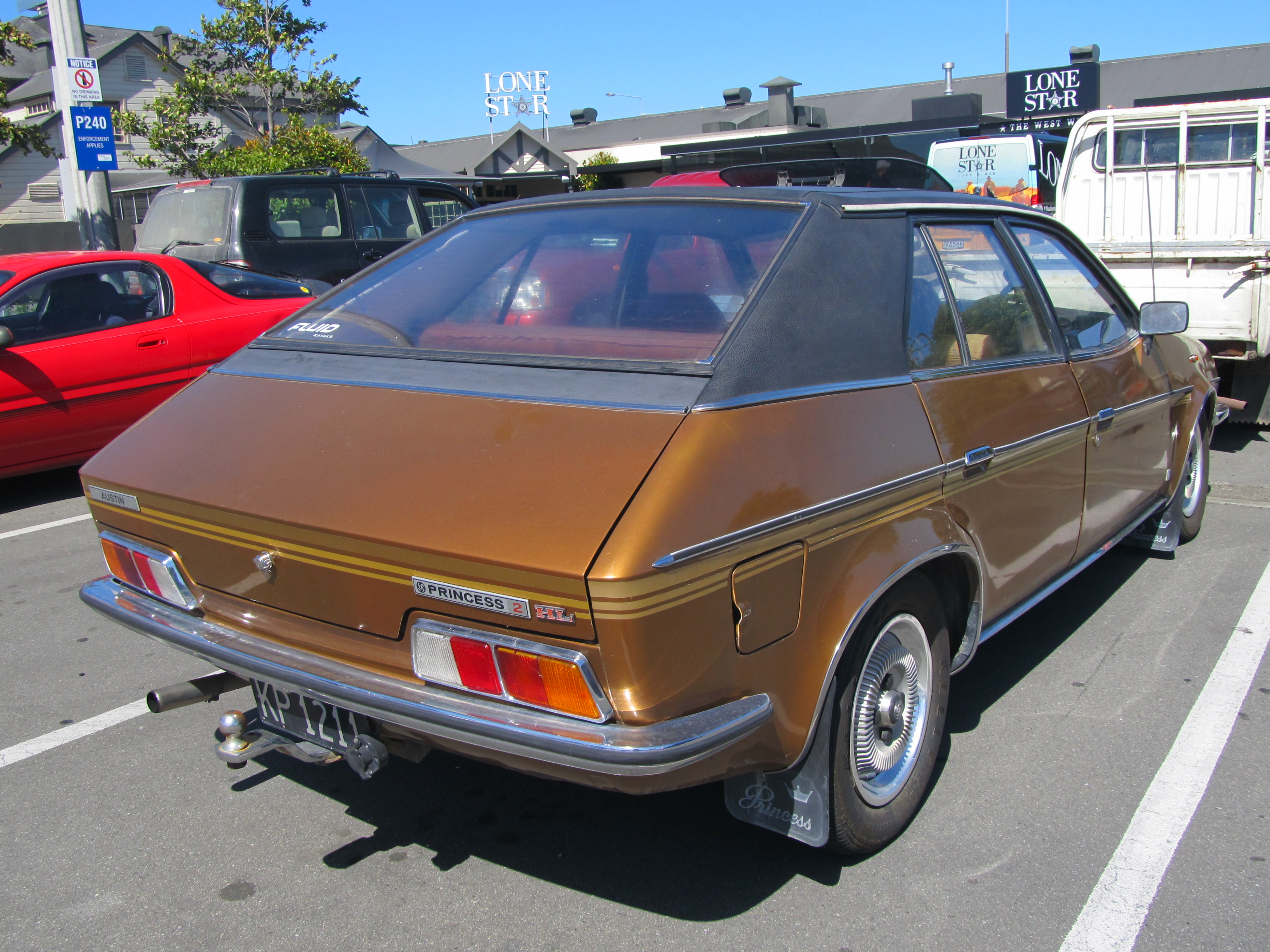 KP1211 I never got round to uploading this rear shot of this fantastic Princess I spotted 18 months ago - well, here it is! The bronze colour is so 70s, yet this was built more than two years into the new decade. Sadly I haven't seen it since, but I'm pretty sure it's still about.